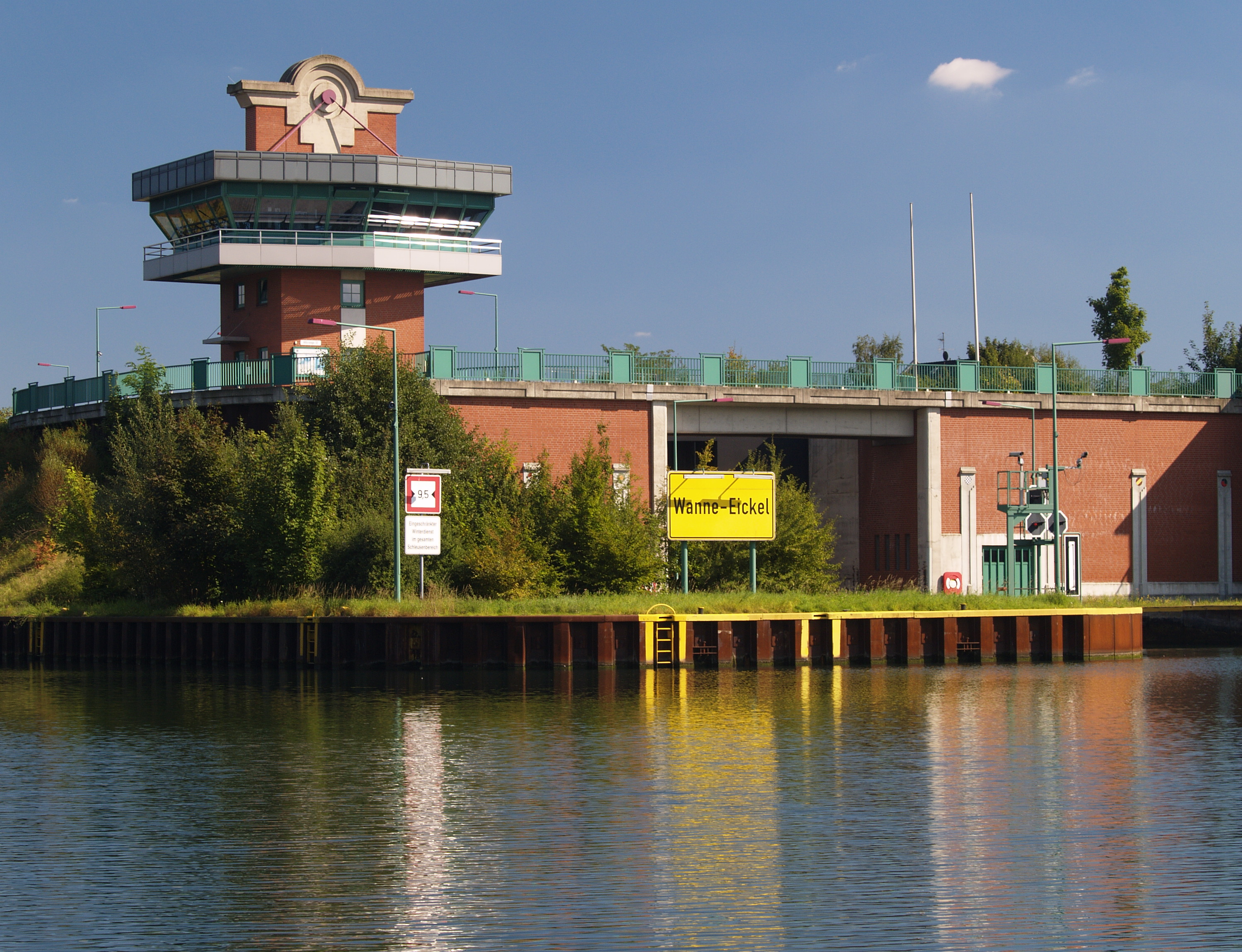 Rhein-Herne-Kanal, lock Wanne-Eickel, the door of the new south chamber